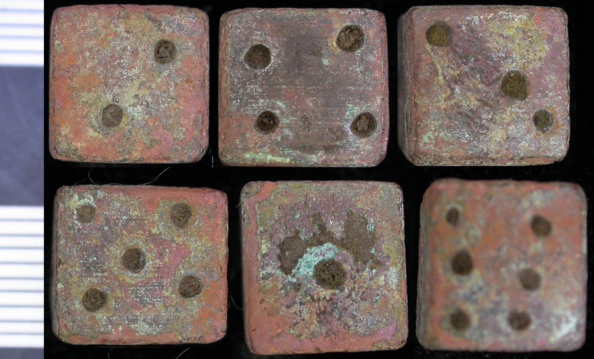 An irregular shaped copper alloy gaming die of uncertain date. The faces are numbered with irregularly spaced punched dots of varying sizes. The numbers are configured in the conventional style. (6 opposite 1, 5 opposite 4 and 3 opposite 2). All the faces have file marks.